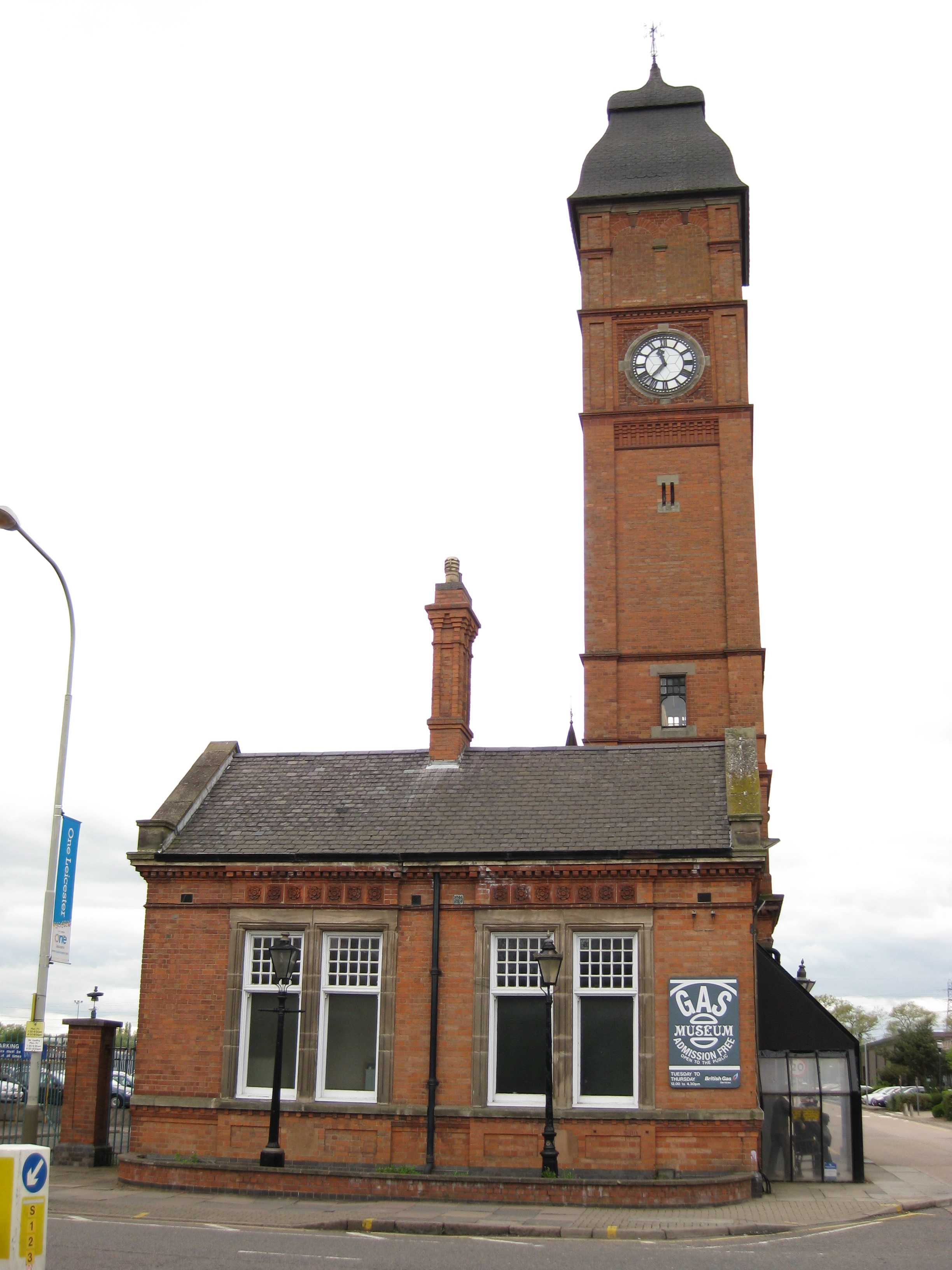 The Gas Museum, 195 Aylestone Road, Leicester, LE2 7QH.